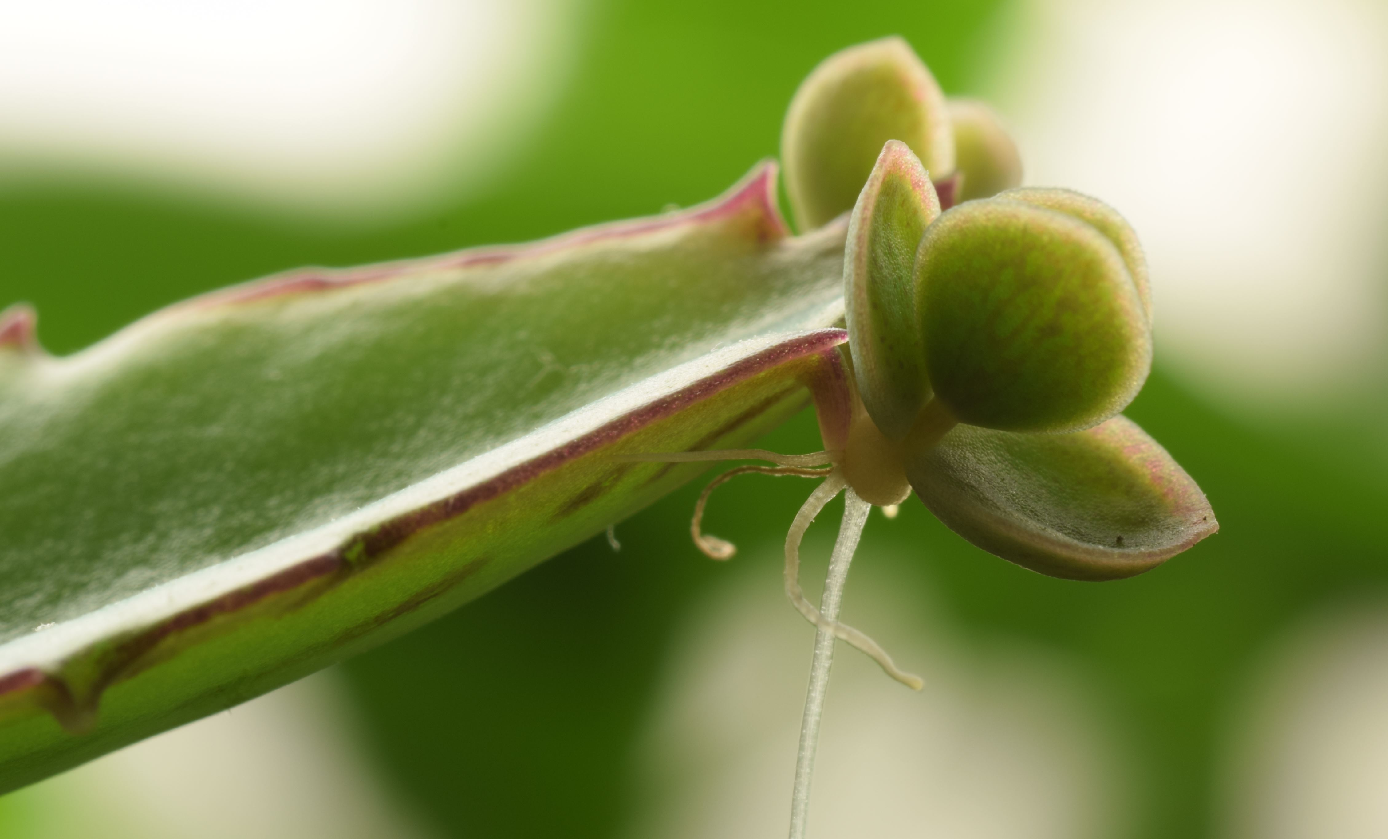 Seedlings on Bryophyllum Daigremontianum